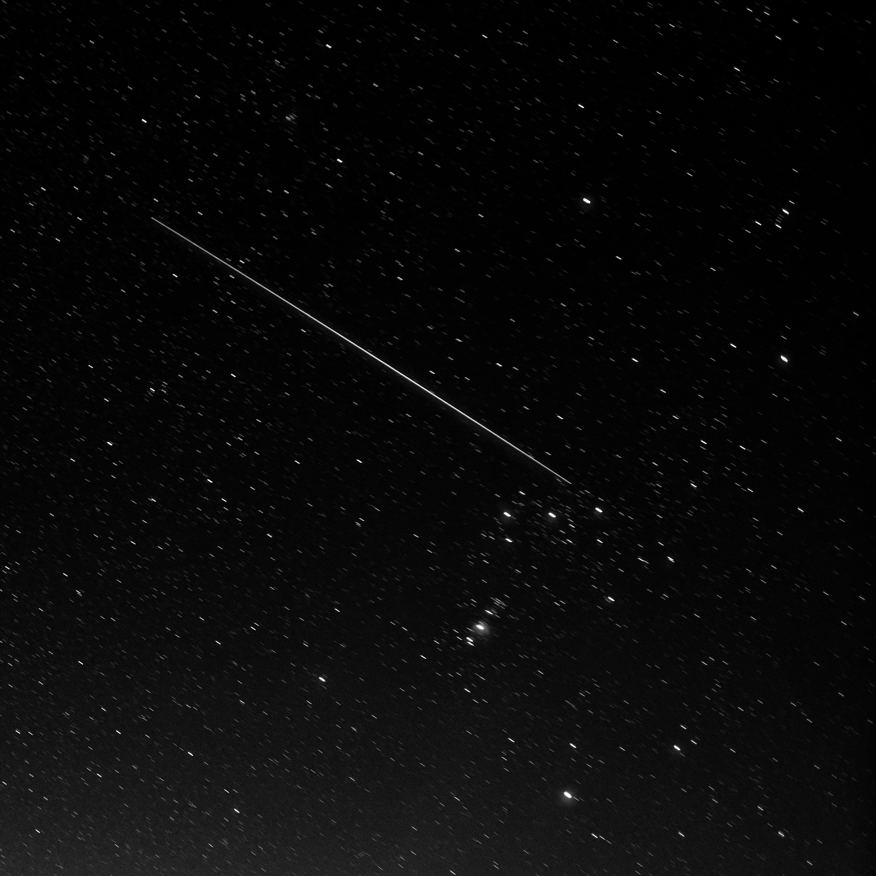 The Hubble Space Telescope in the constellation Orion, April 11, 2020. A 39-second exposure.